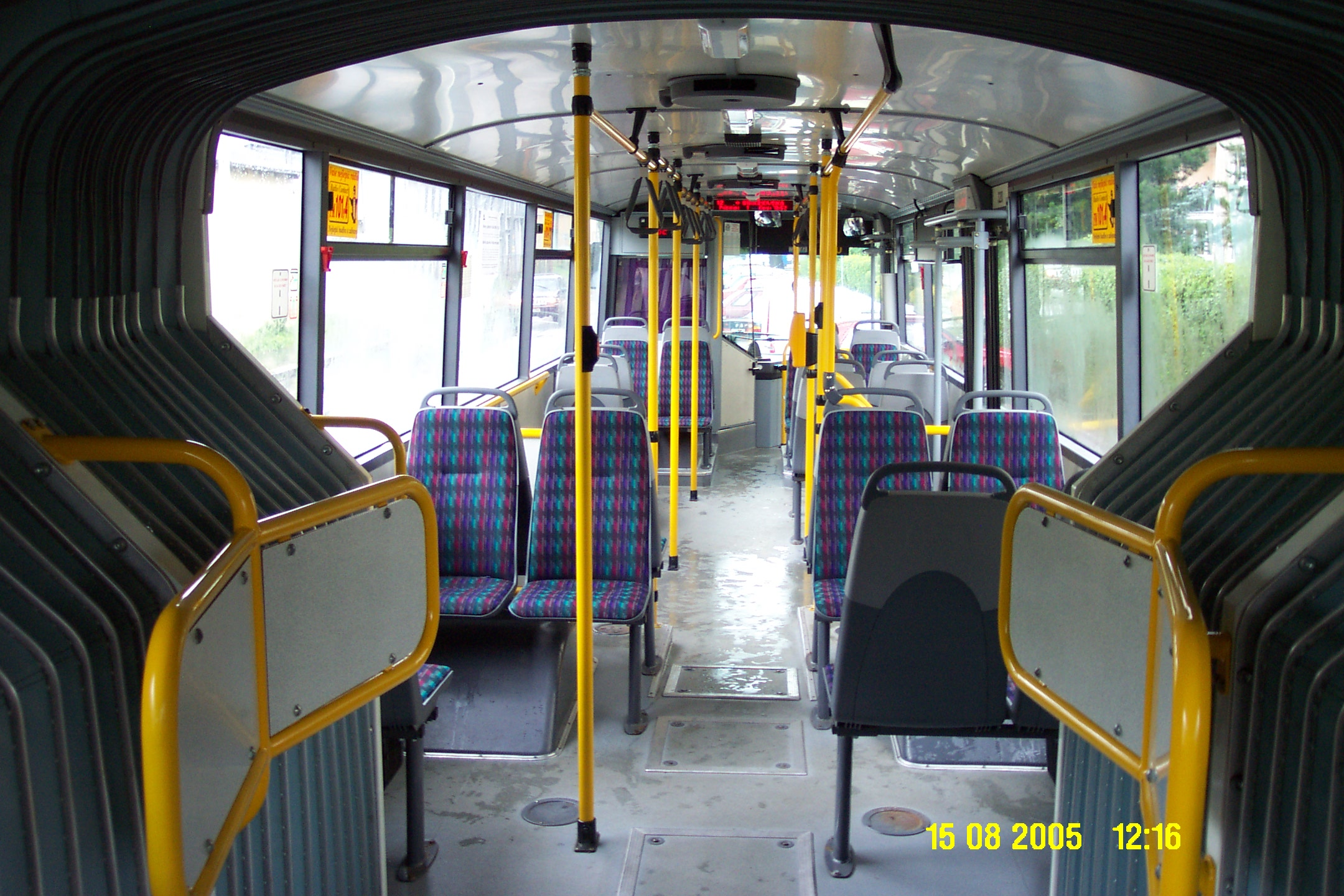 One of the Liberec's Karosa B 961 bus interieur - Interiér jednoho z libereckých autobusů Karosa B 961.